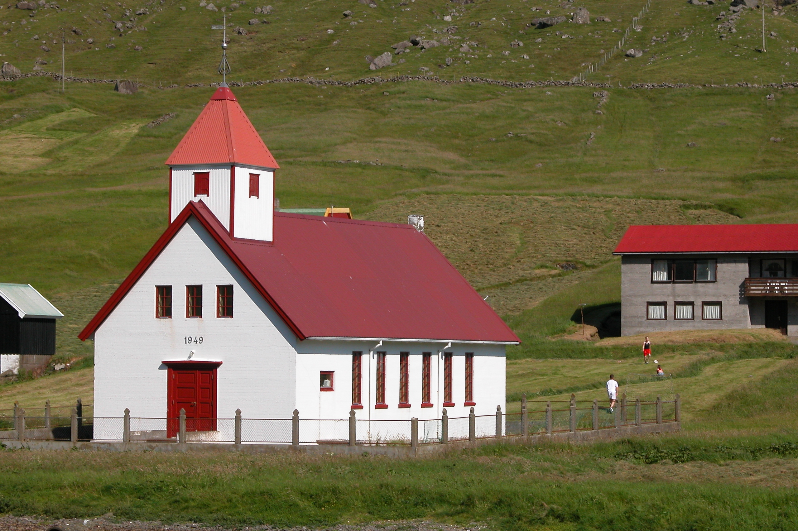 Church of Hvannasund on Viðoy, Faroe Islands.